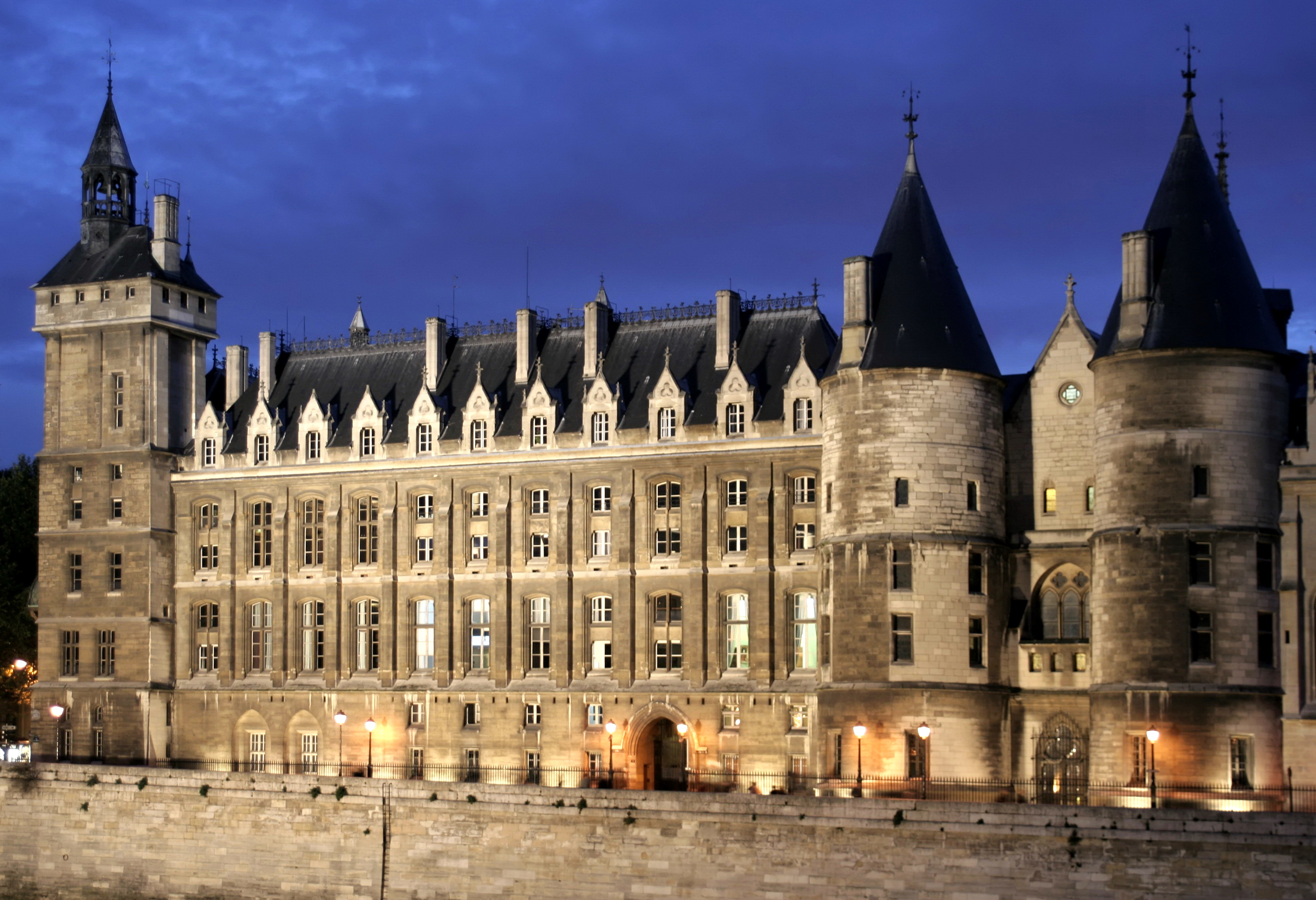 Conciergerie castle, Paris 1st